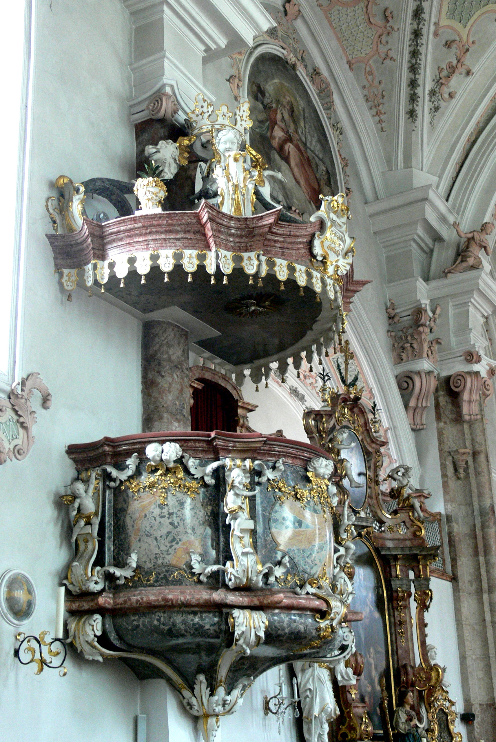 Rattenberg ( Tyrol ). Saint Virgil parish church: Rococo pulpit ( 1725 ).